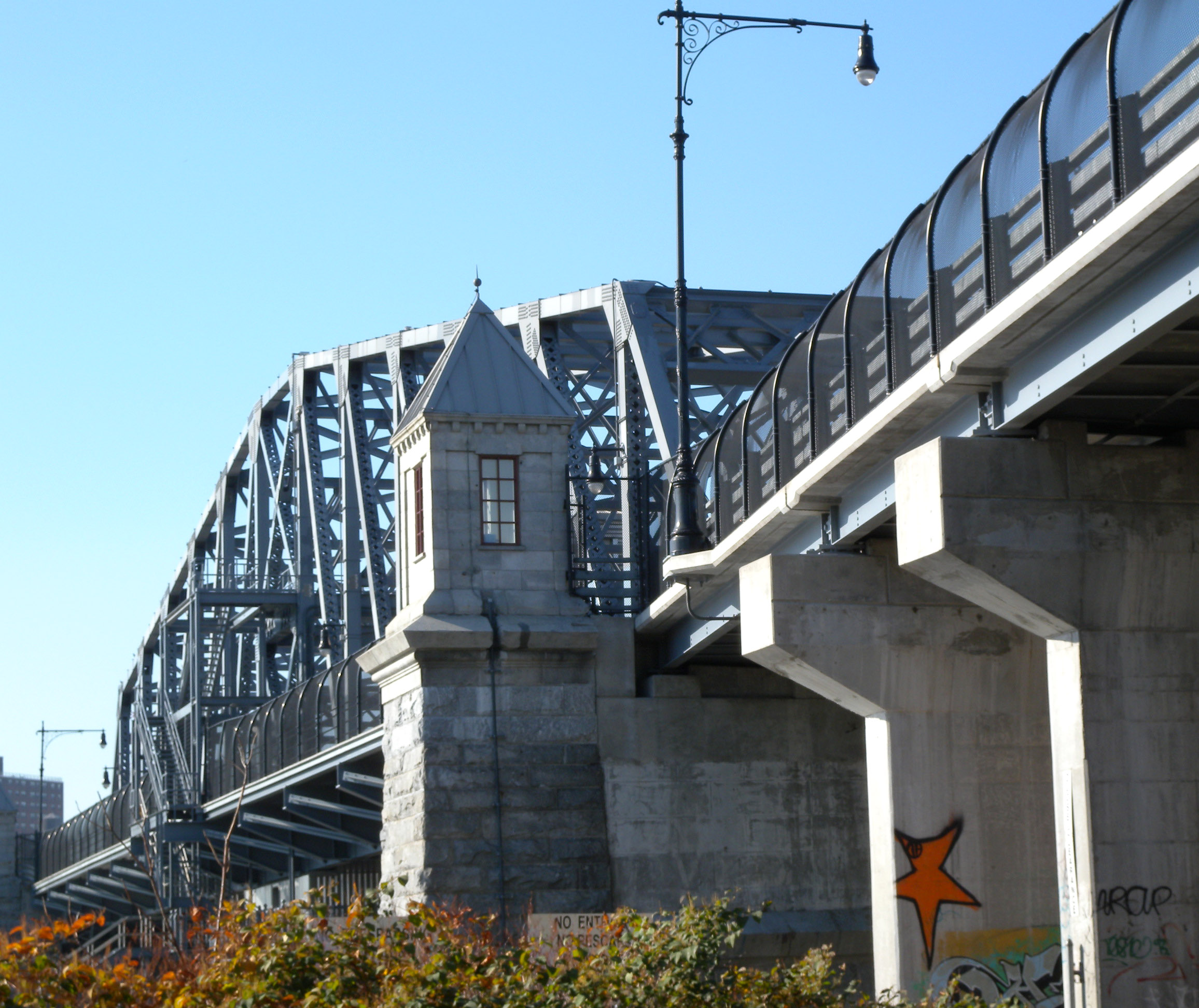 Looking west and up at en:145th Street Bridge on a sunny afternoon in November. EXIF says September due to photographer's error.